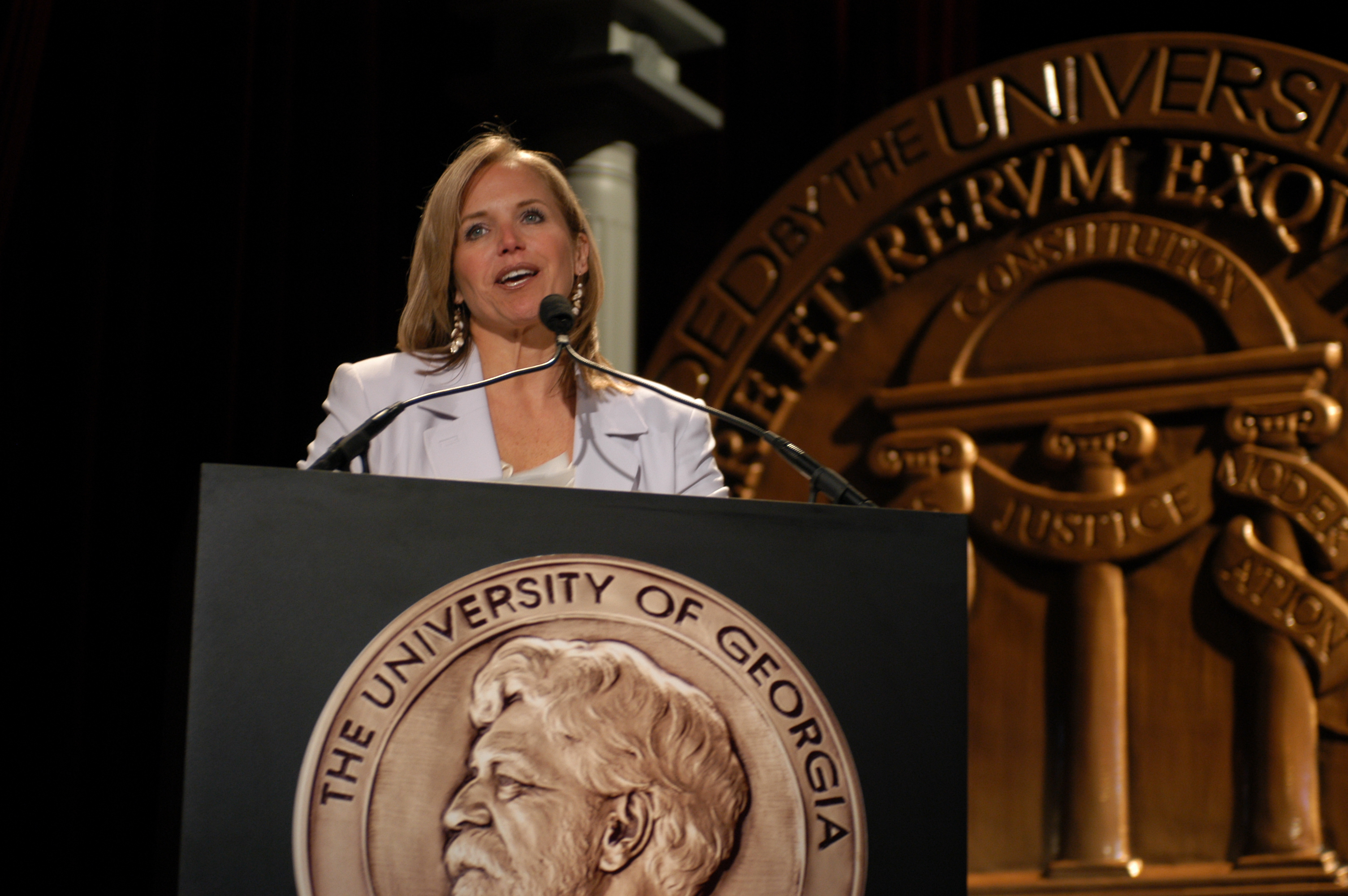 PHOTO CREDIT: ANDERS KRUSBERG / PEABODY AWARDS Katie Couric hosting the 63rd Annual Peabody Awards Luncheon Waldorf=Astoria Hotel May 17, 2004